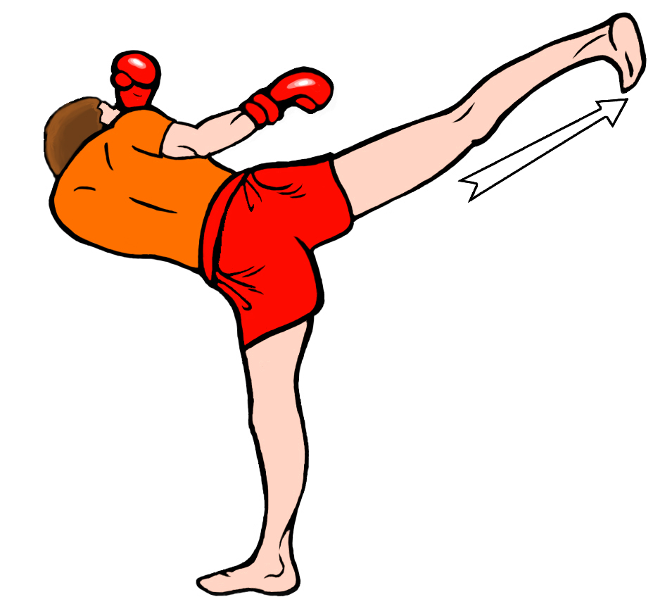 Cardio Lethwei